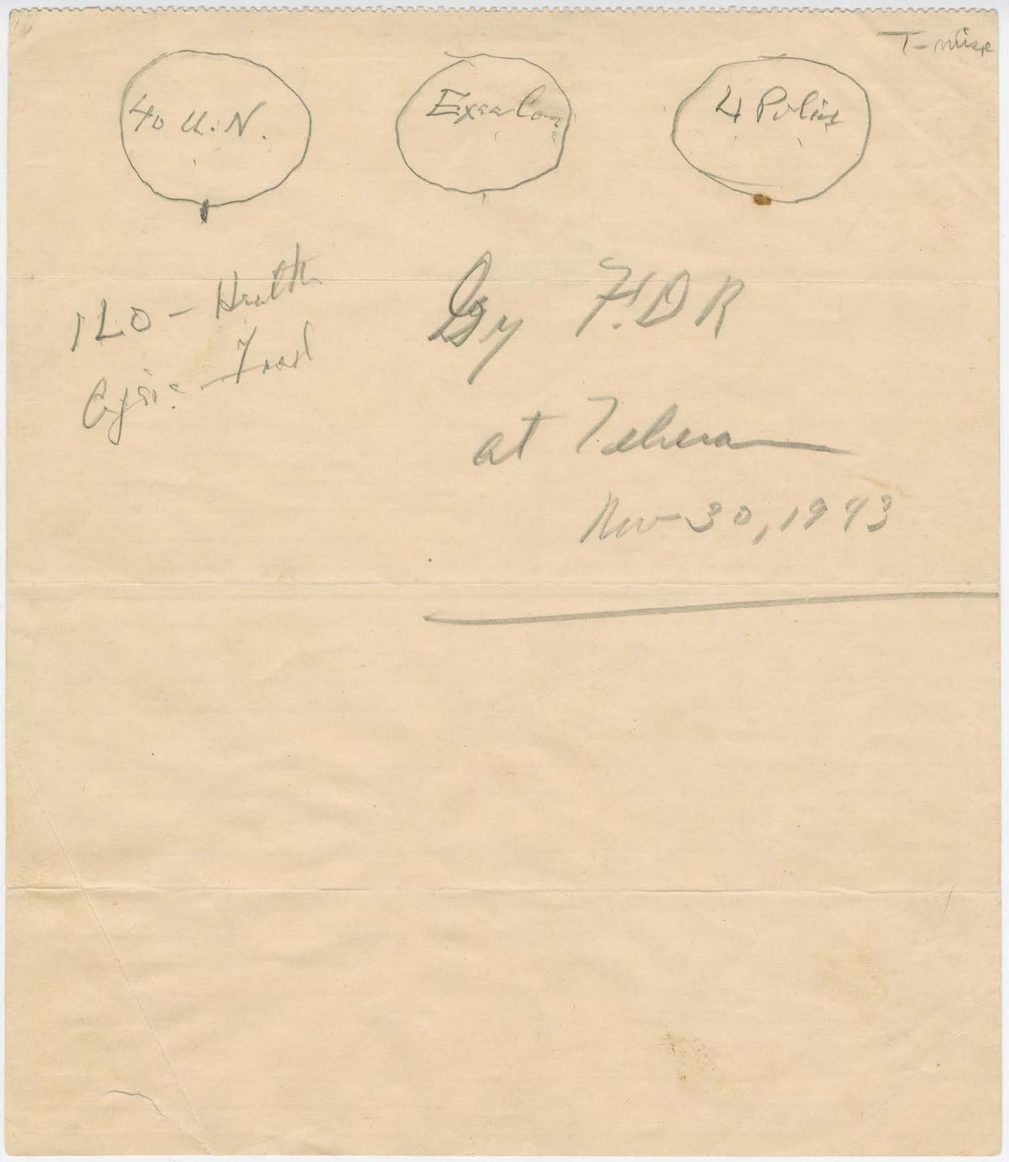 United Nations organization sketch by Franklin Roosevelt from November 30, 1943. From left to right, the sketch shows the three branches of the United Nations as originally envisioned by Roosevelt: an international assembly of 40 UN member states, an executive branch dominated by the Big Four, and an enforcement branch called the Four Policemen comprising the United States, Soviet Union, Britain, and Republican China.